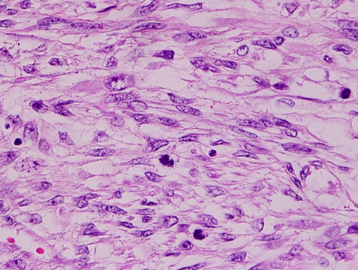 Histopathology of leiomyosarcoma of the uterus.